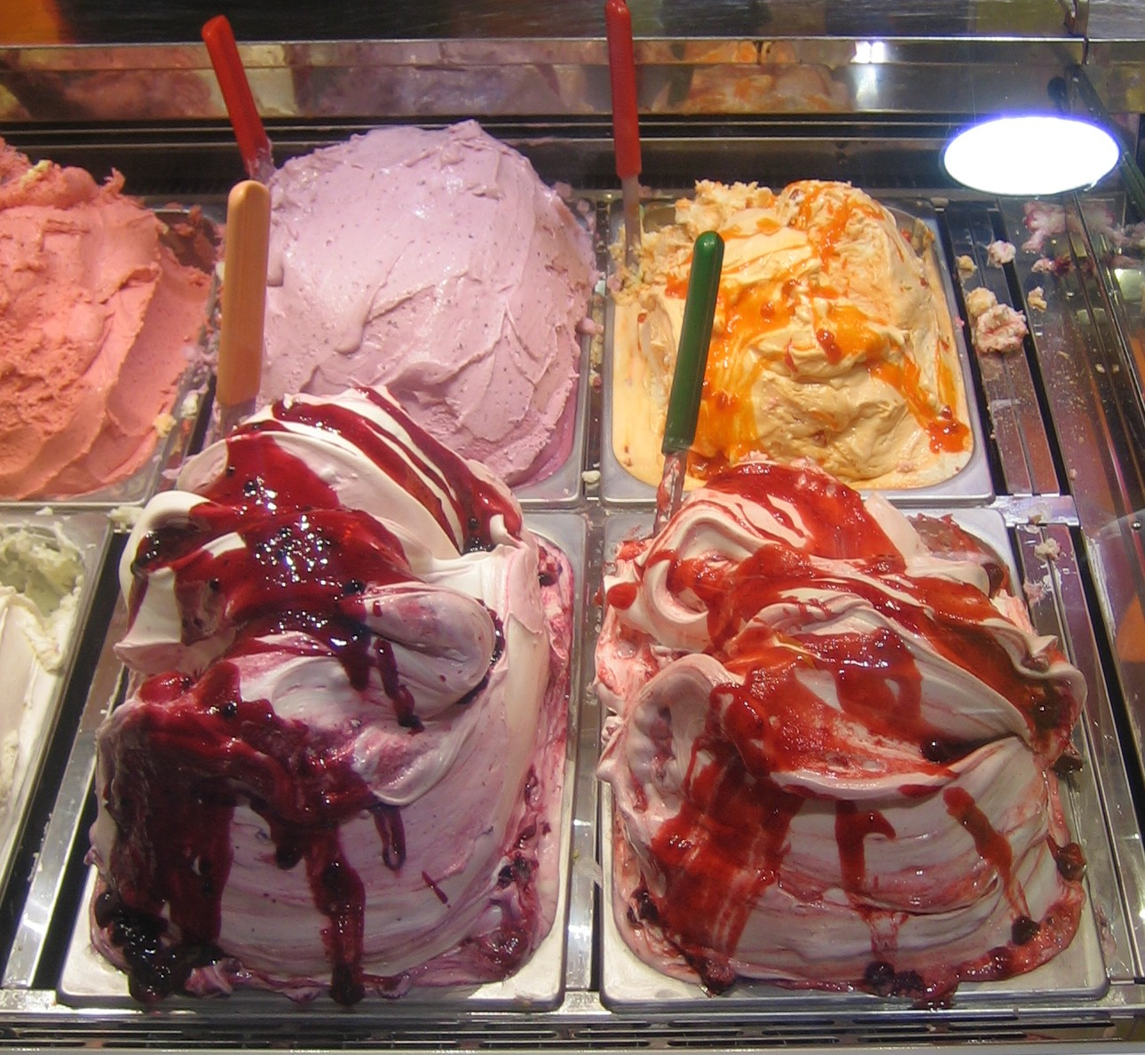 It's a picture of an Italian ice-cream shop in Rome, Italy